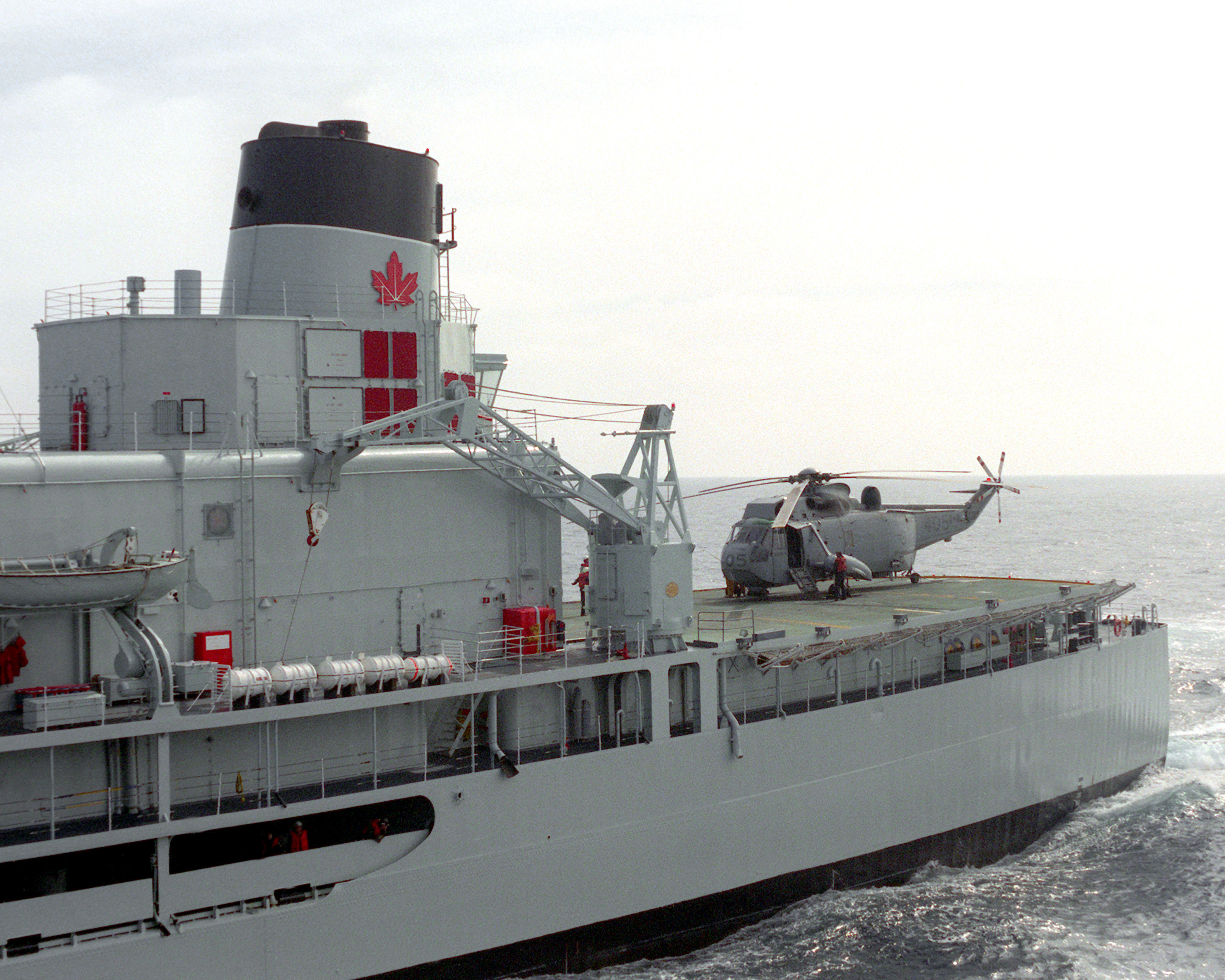 View of the aft section of the Royal Canadian Navy replenishment oiler HMCS Provider (AOR 508) as the ship was underway during a combined U.S./Canadian naval exercise off the coast of Southern California. A Sikorsky CH-124A Sea King helicopter is on the ship's flight deck.